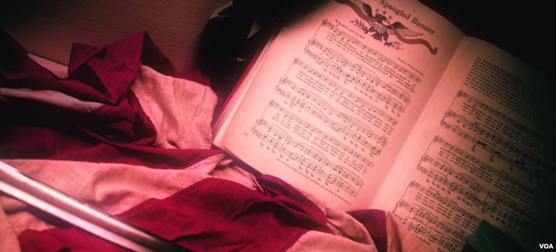 "The Star Spangled Banner" display at Old Fort Meade Museum in South Dakota. (VOA/J. Kent) [Confirmed to be a VOA produced photo by the VOA bug in the lower right corner]